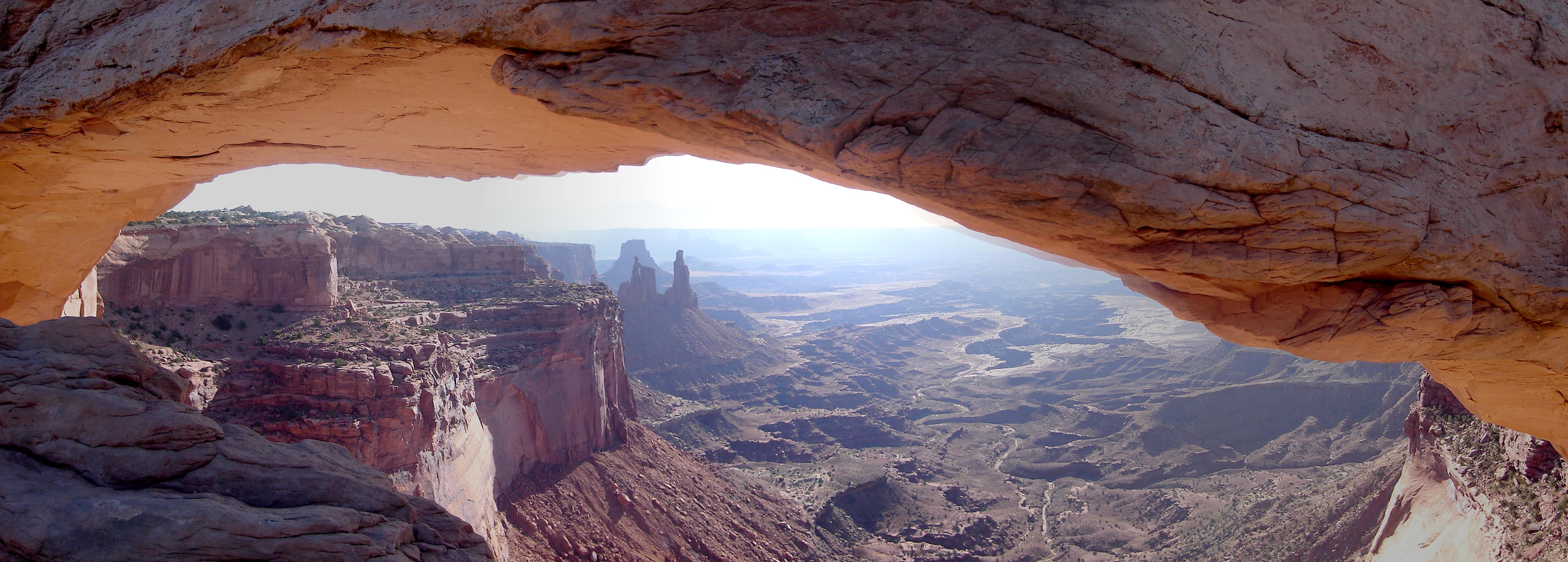 Subject: Mesa Arch, Canyonlands National Park, Utah, USA Author: Michael Rissi, 2005 nl:Afbeelding:CanyonlandsArchPanorama.jpg